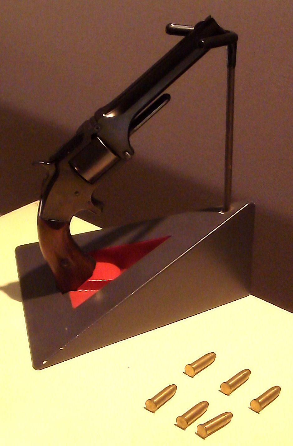 Smith and Wesson Army No2_of_Sakamoto_Ryoma